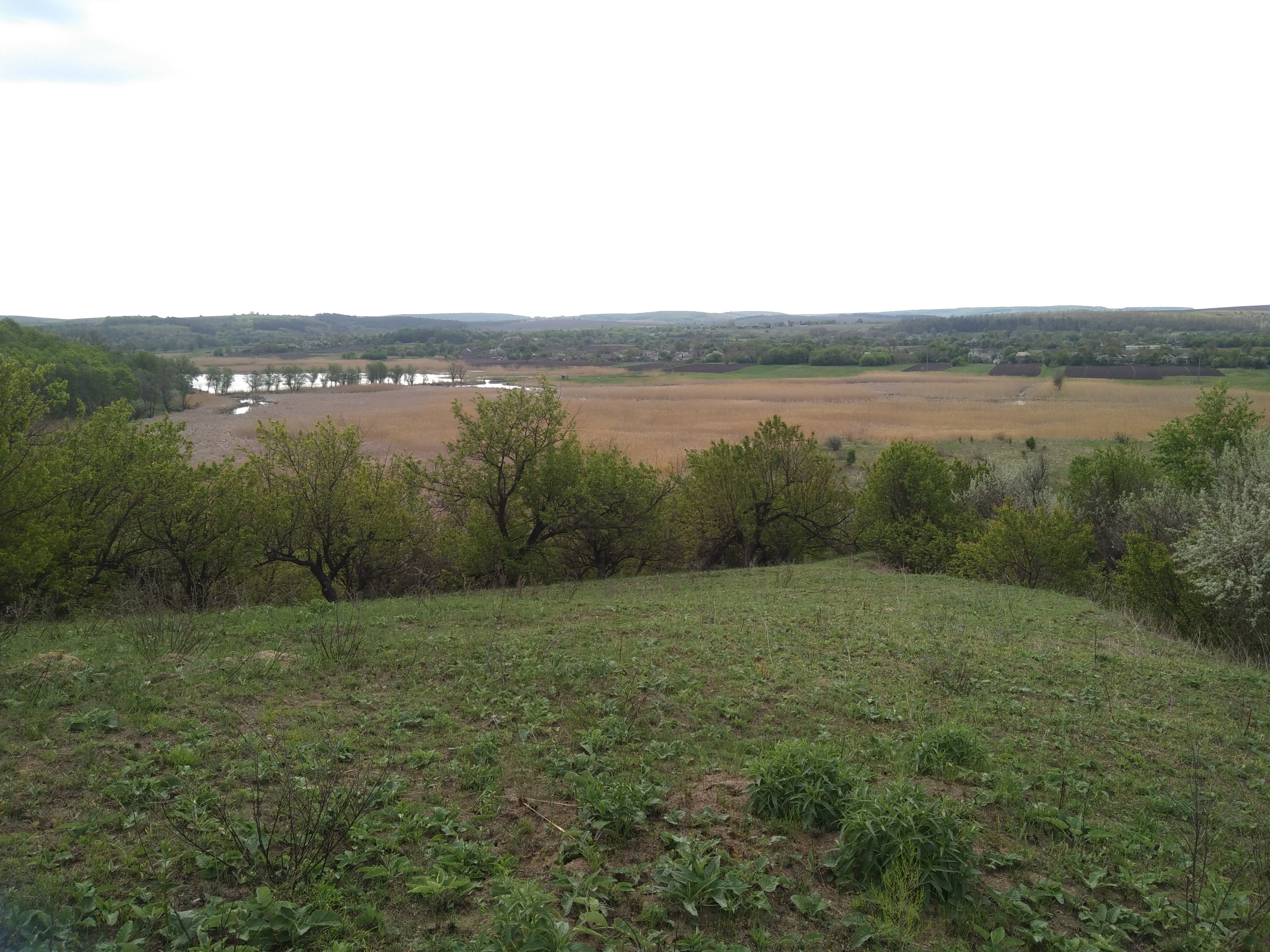 Tsybulnik river (tributaries of the Dnieper River)